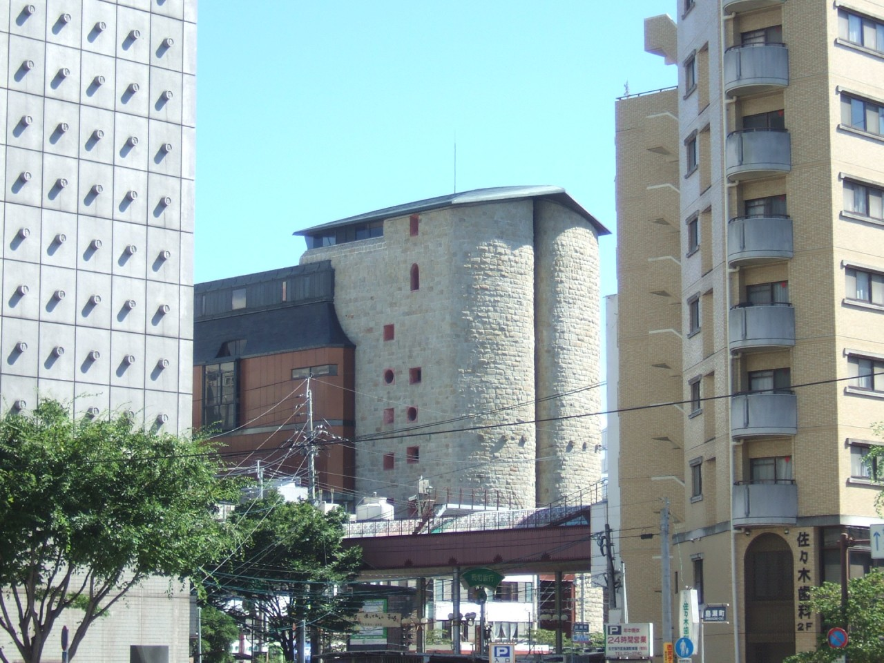 Shinwa Bank (Sasebo, Nagasaki Japan)